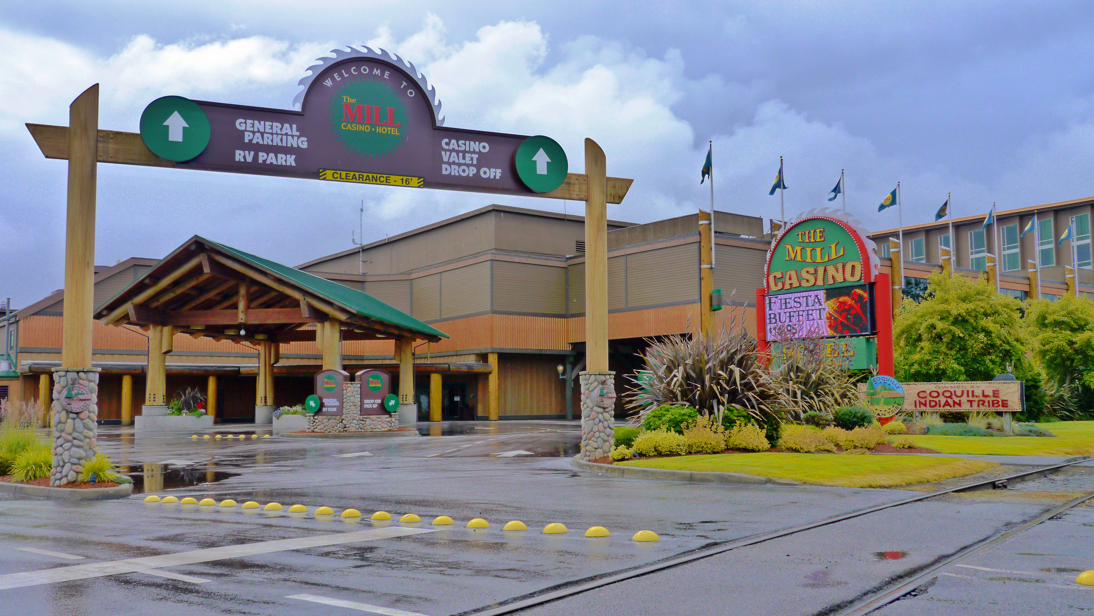 The Mill Casino, Hotel, & RV Park is located in North Bend, Coos County, Oregon. (